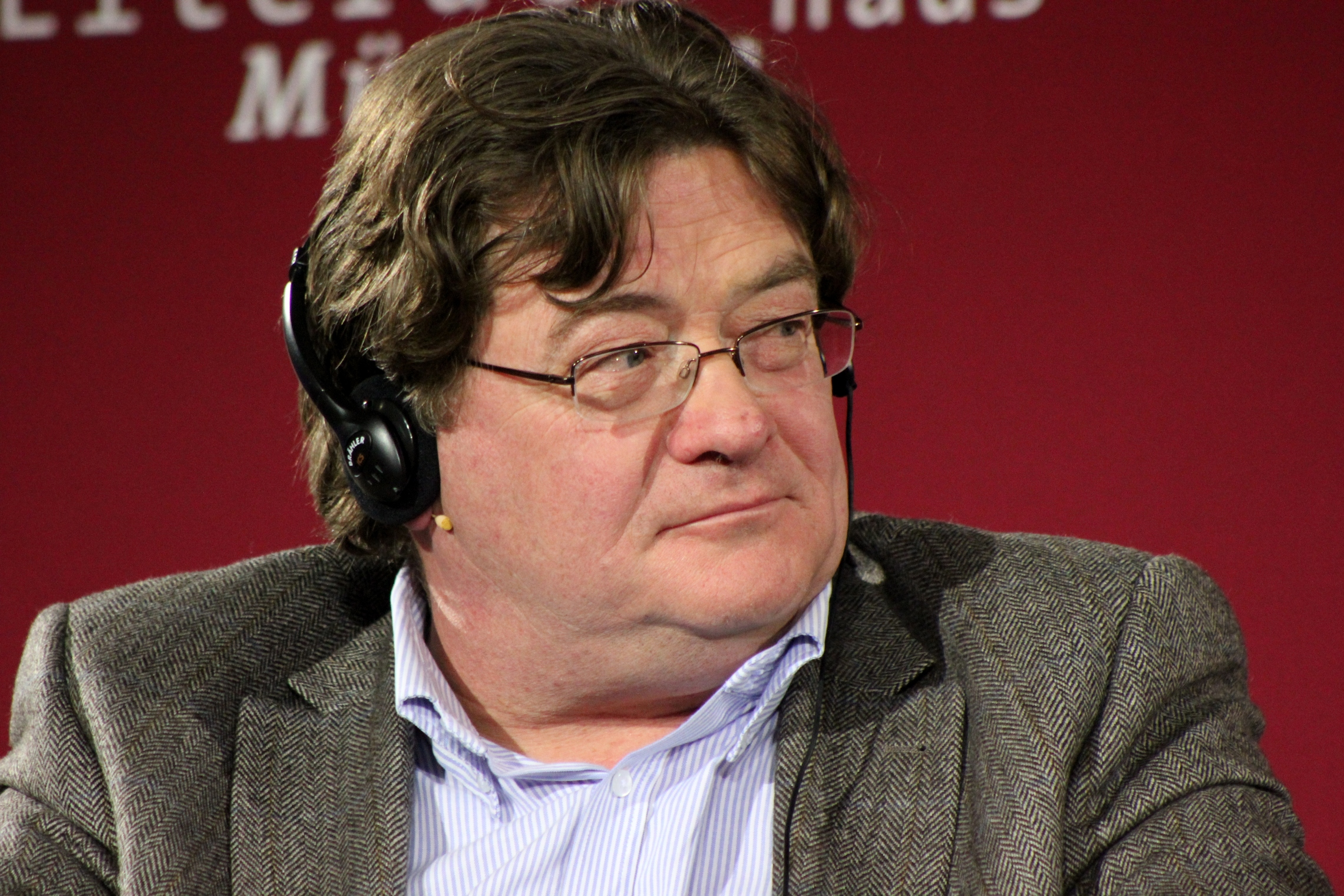 John Burnside, Munich 2012